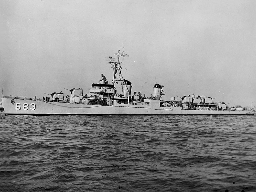 The U.S. Navy destroyer USS Stockham (DD-683) underway off the Philadelphia Naval Shipyard, Pennsylvania (USA), on 12 December 1952.